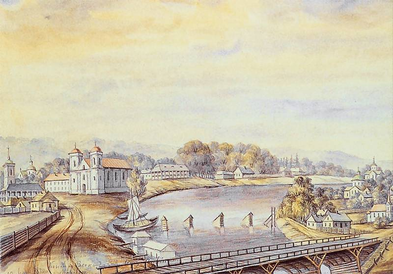 Mahiloŭ, Napaleon Orda.